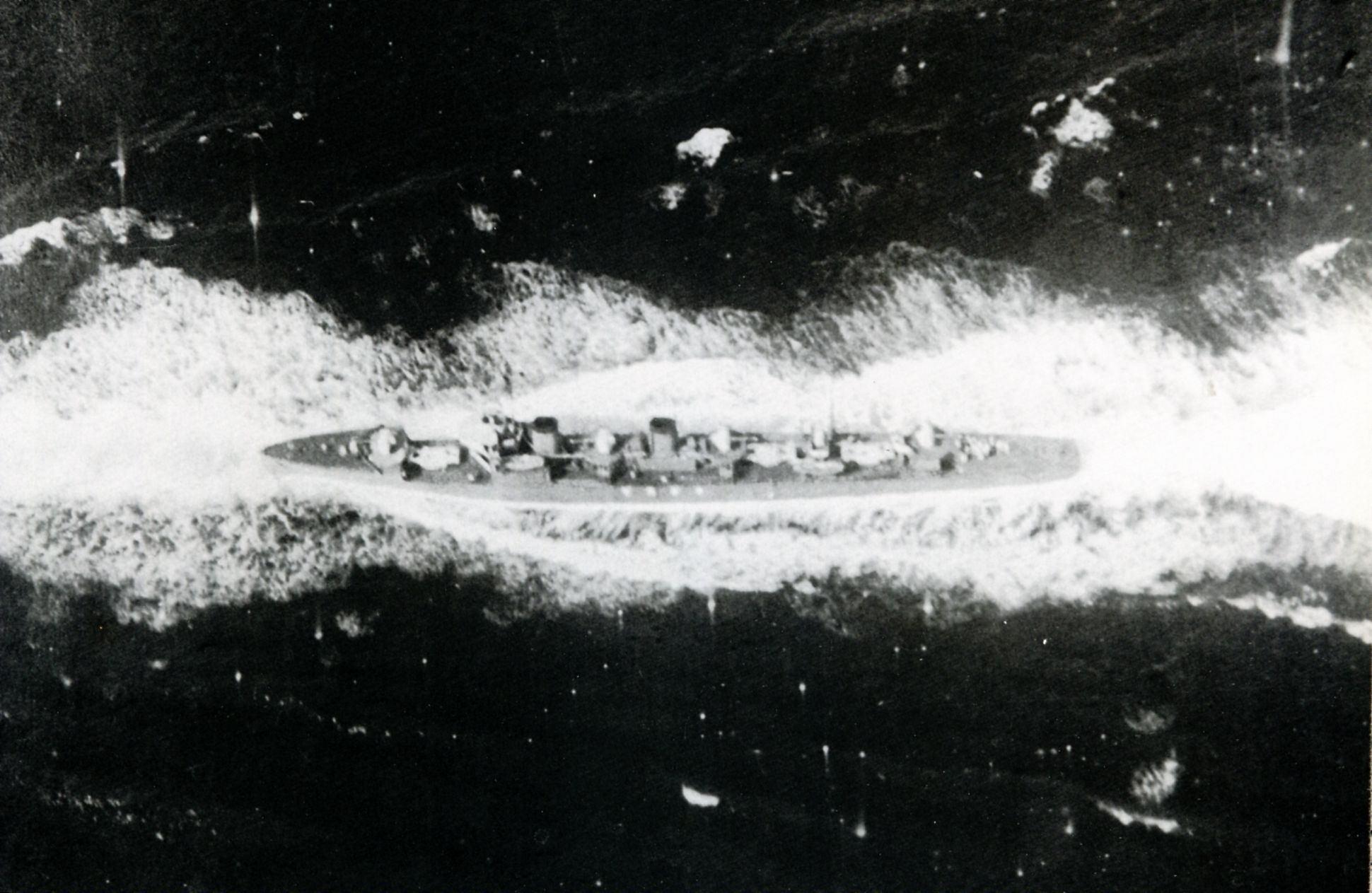 Imperial Japanese Navy destroyer Nadakaze on high speed trials.